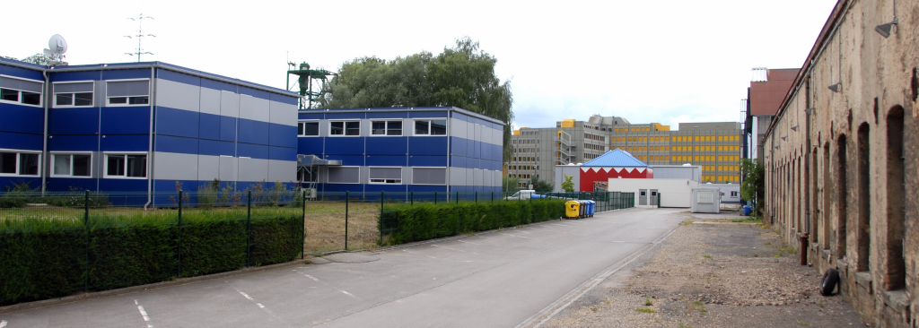 The school "Neie Lycée" in Hollerich (Luxembourg City). Later the school has been transferred to Beringen near Mersch.